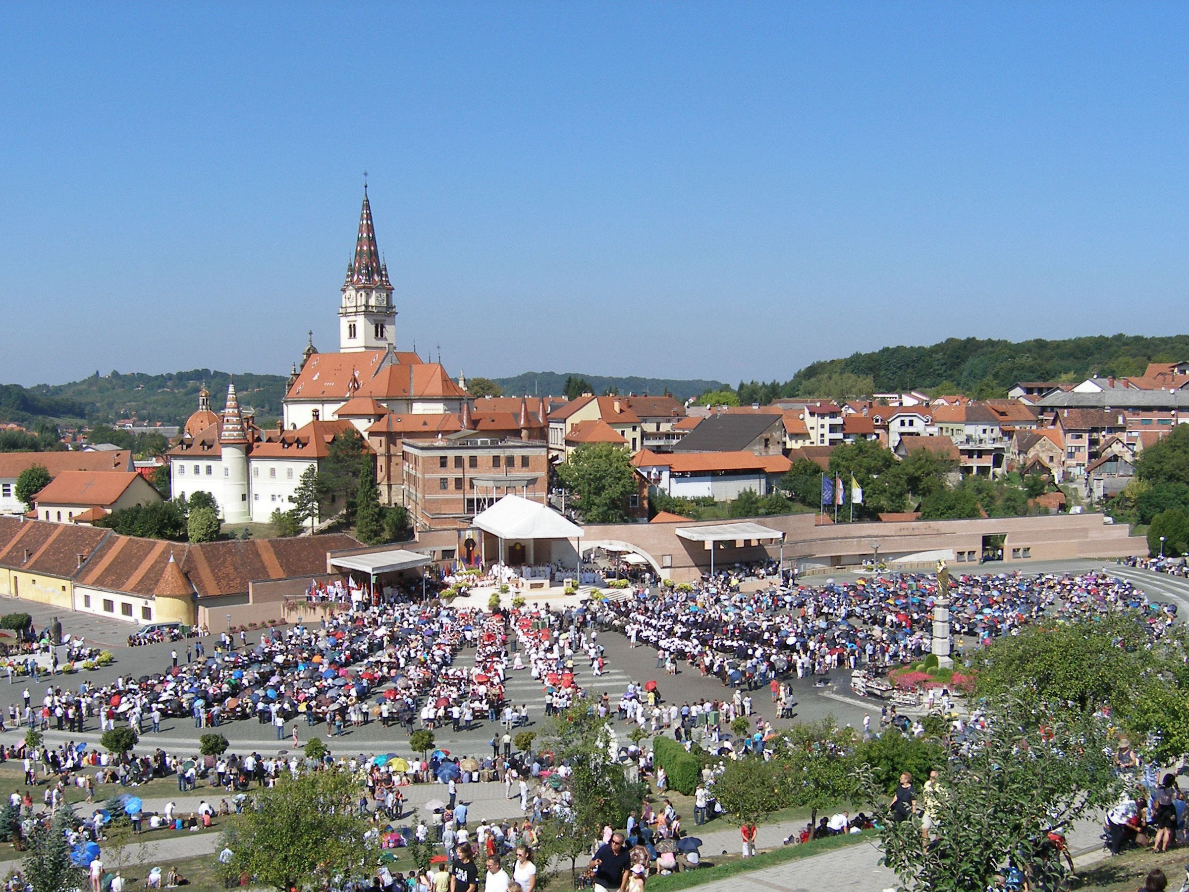 The Holy Mass in the "Bl. Aloysius Stepinac" Open Air Church that took place on 11 September 2011 during the 280th votive pilgrimage of the faithful of city of Zagreb to the National Marian Shrine of Marija Bistrica.